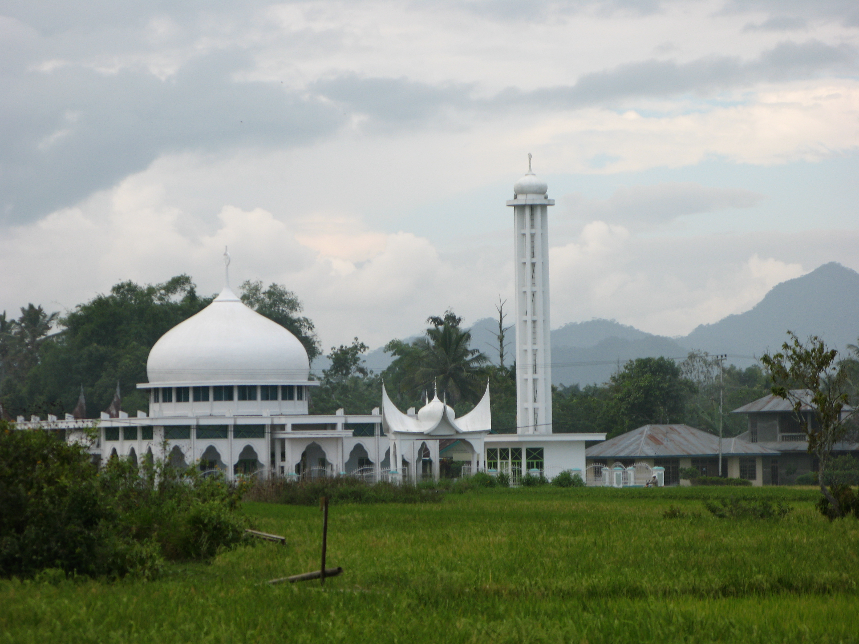 Masjid Jami Koto Marapak mosque, at Koto Marapak village, Kenagarian Lambah, Kecamatan IV. Angkat Candung, Kabupaten Agam, Bukittinggi, West Sumatra, Indonesia